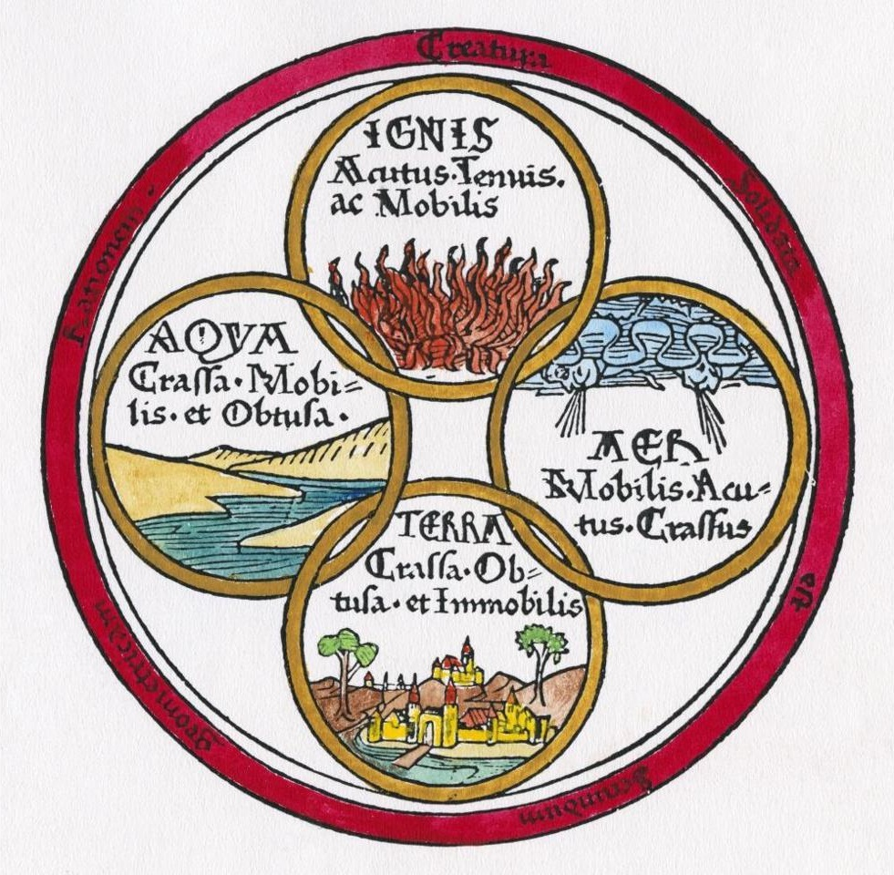 Empedocles four elements (fire, air, water and earth), colored woodcut from an edition of Lucretius De rerum natura, published by Tommaso Ferrando, Brescia, 1472.